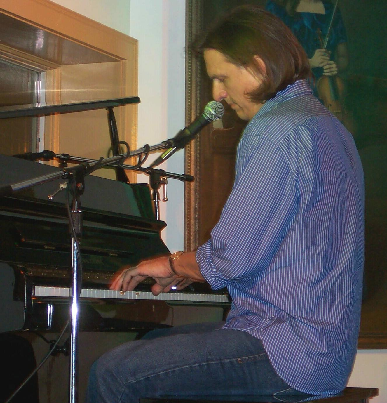 Ellis Paul on piano at Jonathan's Restaurant in Ogunquit, Maine